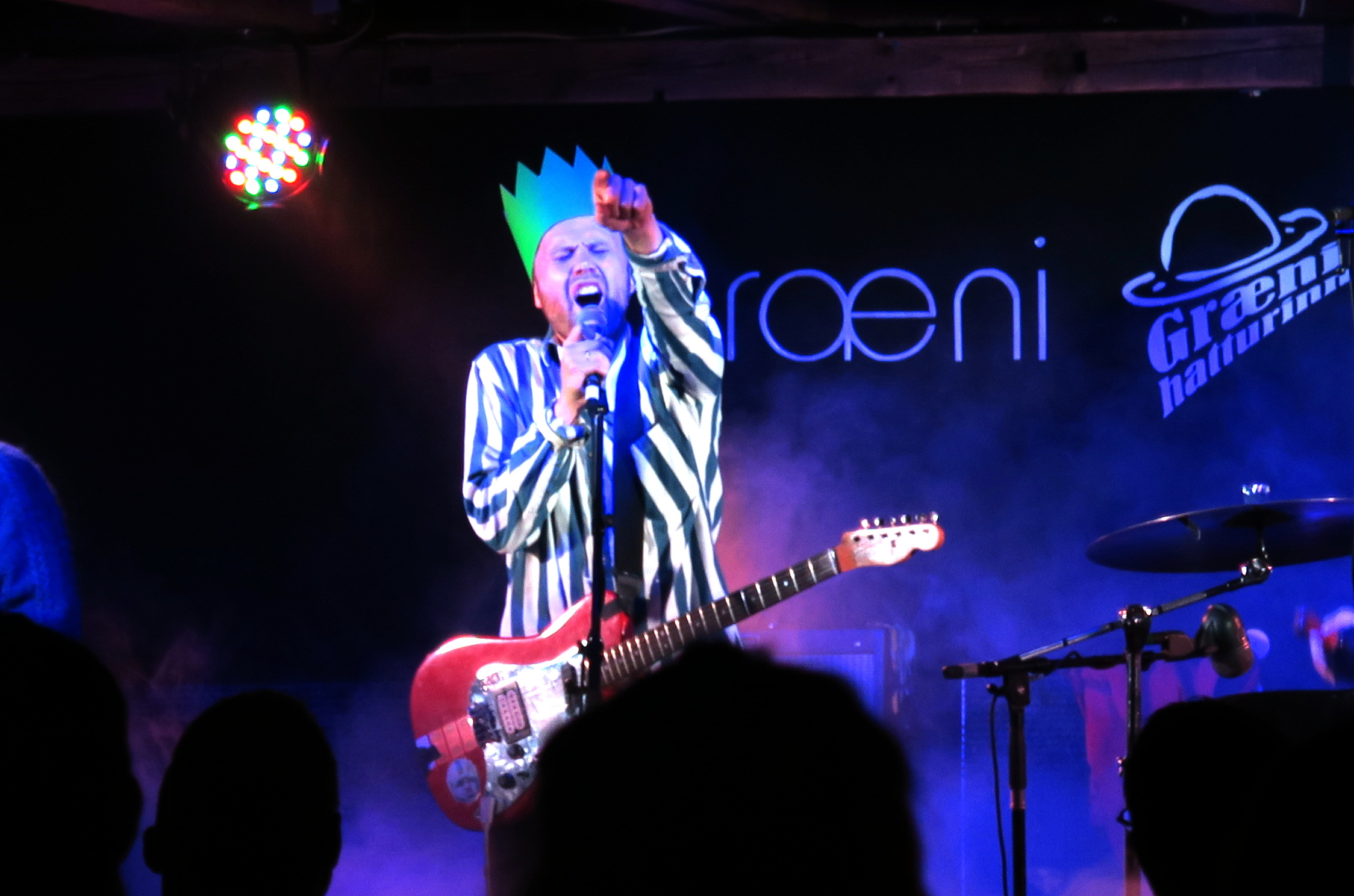 Prins Polo in concert at Græni Hatturinn 2014-06-20